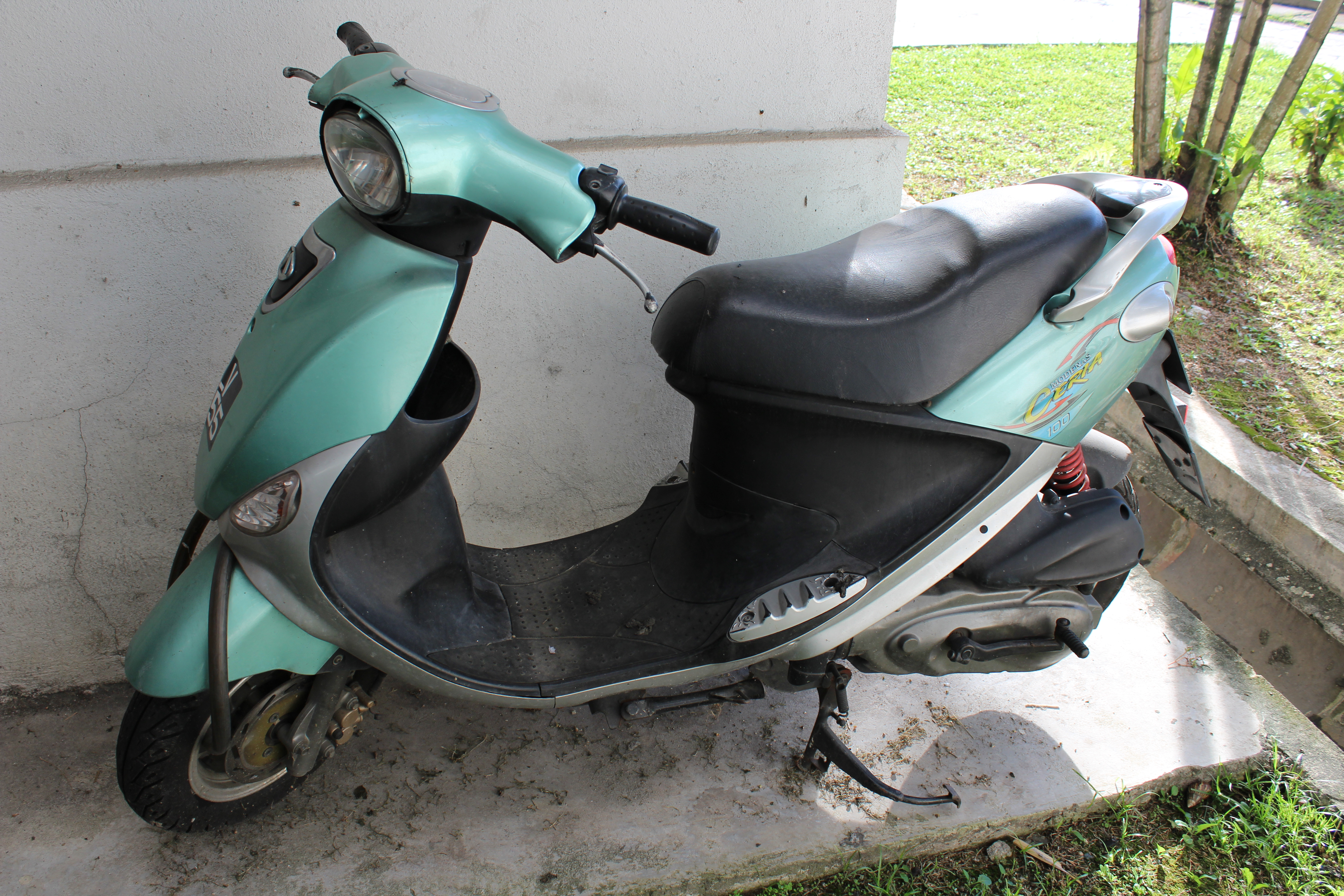 A Modenas Ceria scooter at Bandar Baru Sentul, Kuala Lumpur